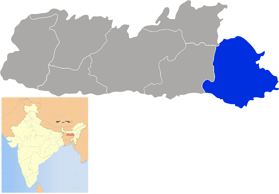 Jaintia Hills district of Meghalaya